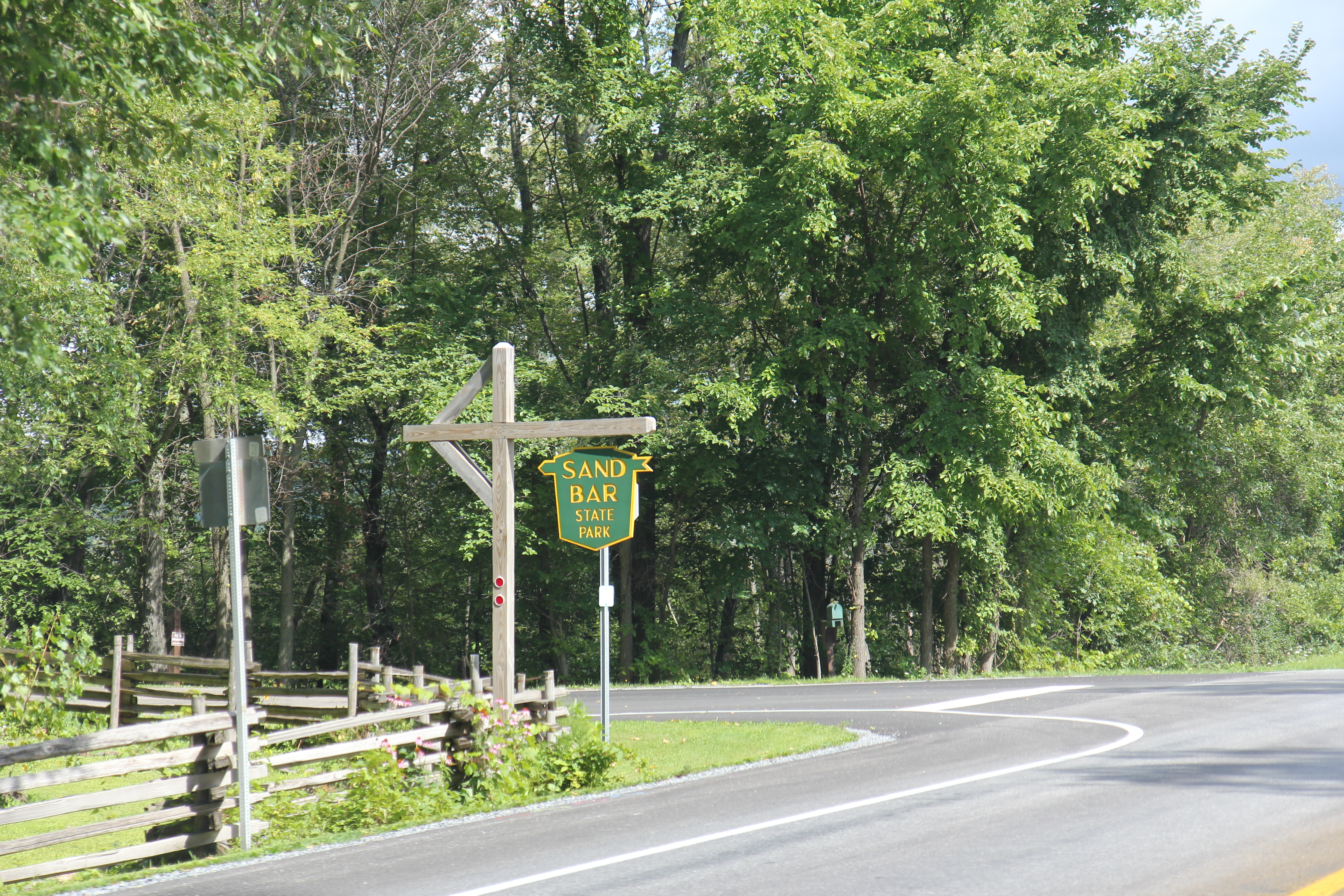 The entrance to Sand Bar State Park in Vermont on Lake Champlain. The park is listed on the NRHP as # 02000028